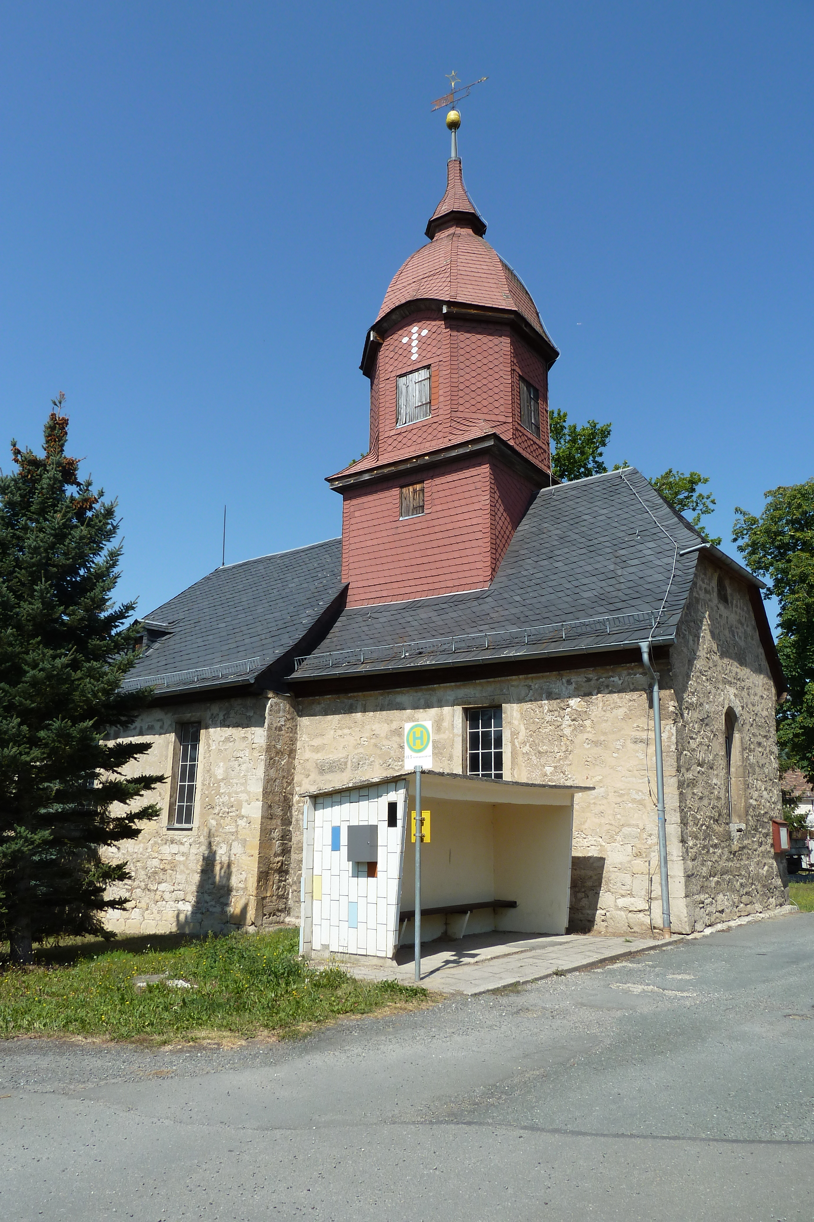 Church in Oßmaritz, Municipality of Bucha, Saale-Holzland-Kreis, Thuringia, Germany